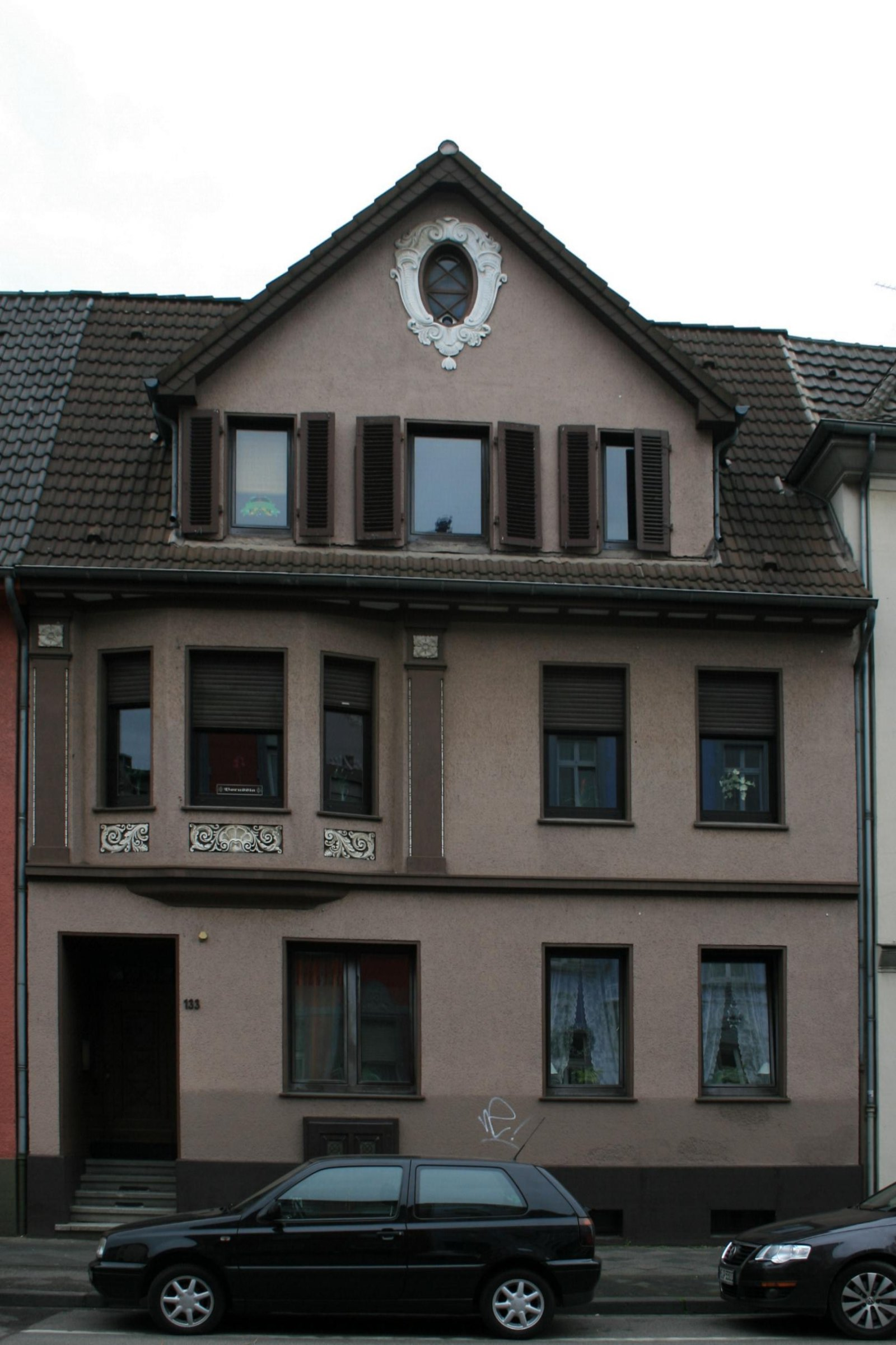 Cultural heritage monument No. V 021 in Mönchengladbach